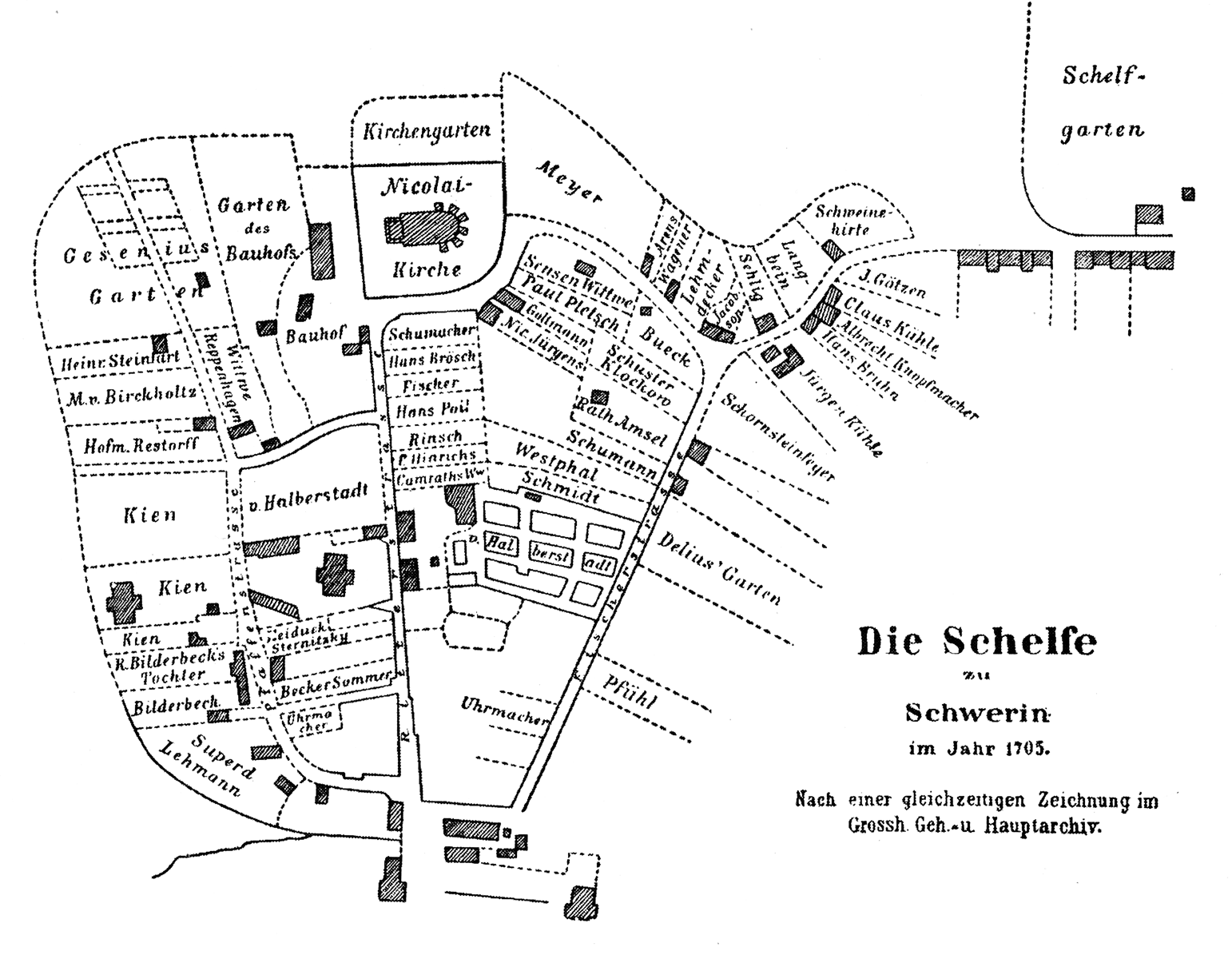 Schelfe in 1705. The Schelfe became a city in 1705 and is part of Schwerin (Germany) today.